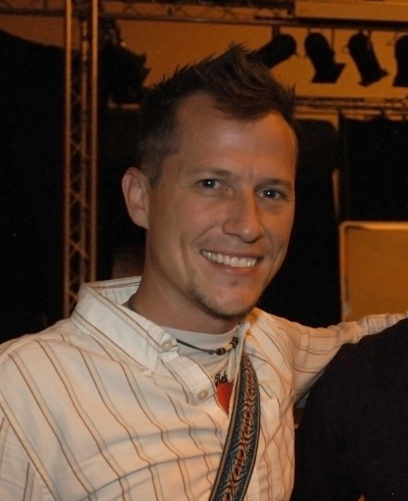 Crop of a photograph of Corin Nemec at GateCon 2006.